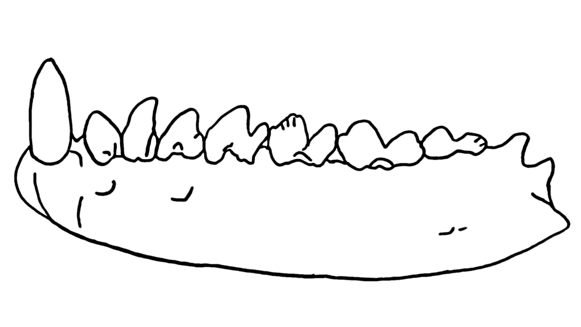 Mandibula of Bisonalveus browni